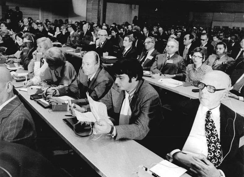 World Conference to End the Arms Race, for Disarmament and Detente in Helsinki, Finland